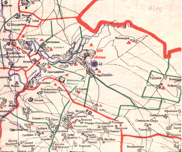 Рублівський район. 1927 р.